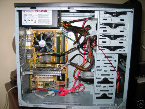 A custom computer put together by me July 26 2007. Asus P5K-SEIntel E6320 Patriot DDR2 800MHz RAM Asus 7300LE grapics card Thermaltake 430watt PSU Thermaltake wing RS 100 case 320GB seagate SATA 3.0GB/s hard drive LG super multi drive Windows vista premium